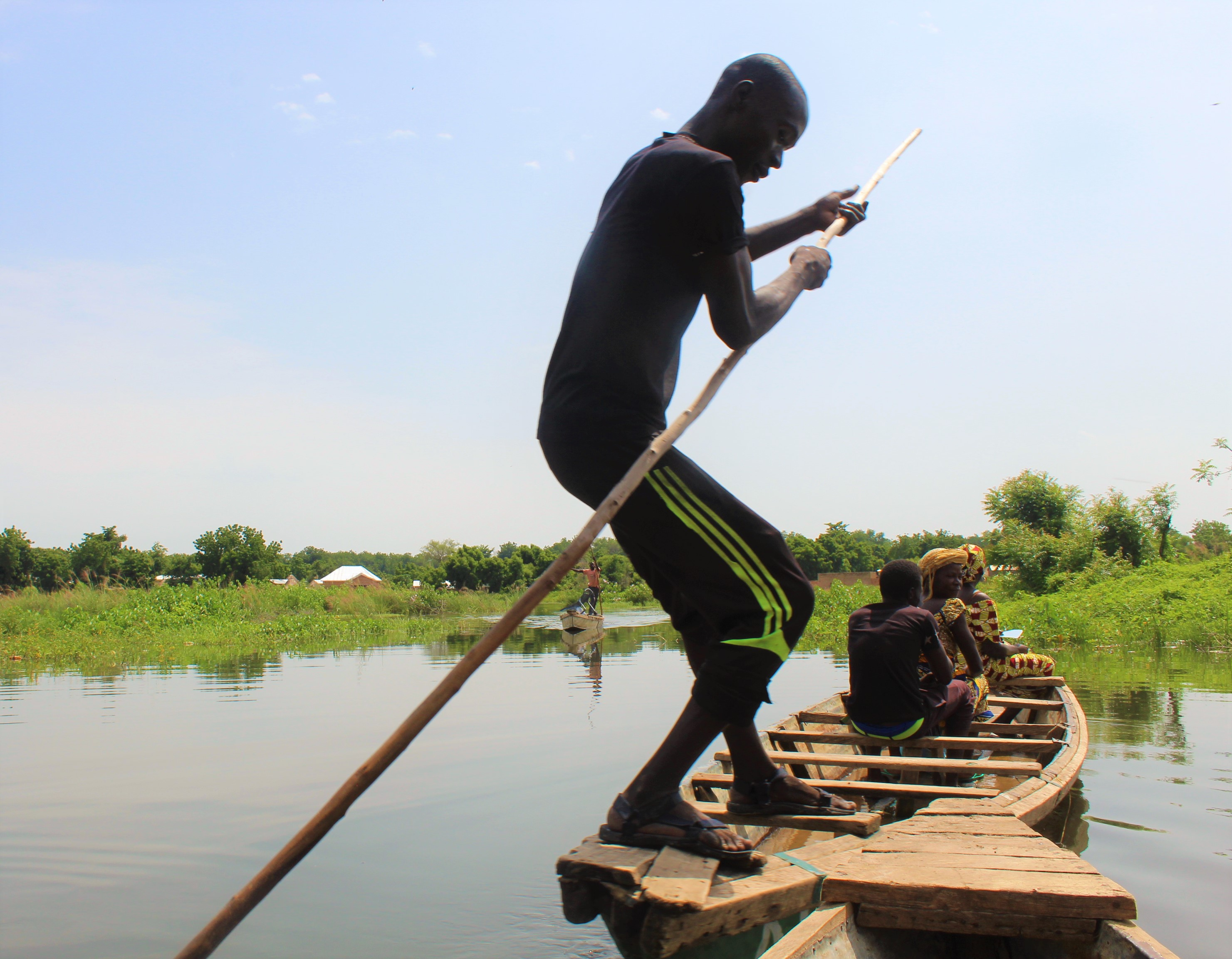 Il pagaie tous les jours en saison de pluie pour permettre aux gens de faire la traversée en pirogue entre deux quartiers de Yagoua, Extrême-Nord Cameroun This is an image of "African people at work" from Cameroon